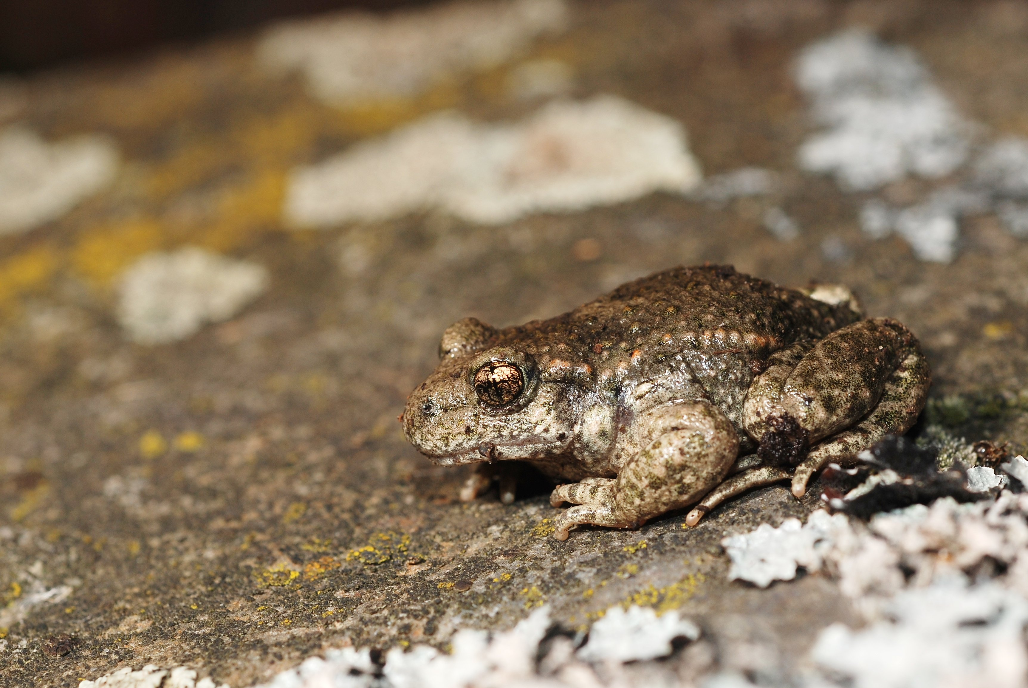 Alytes obstetricans